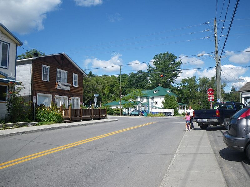 Downtown Morin-Heights, Laurentides, Québec, Canada